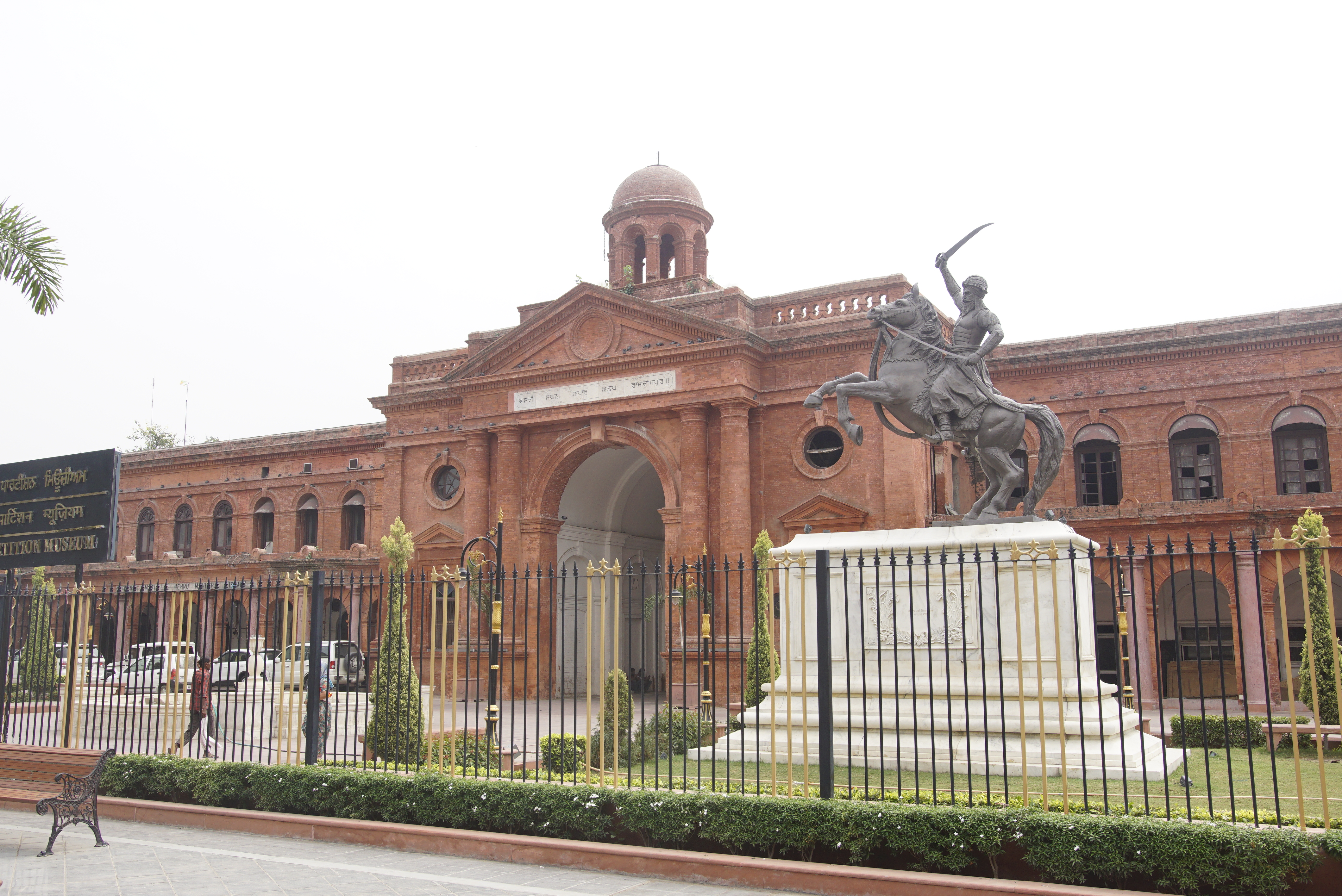 Amritsar